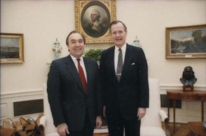 President George H. W. Bush meets with Governor John Engler and his wife.